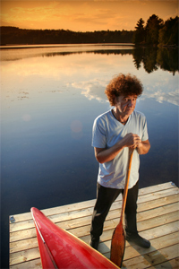 Photographie de Robert Charlebois par Sylvain Dumais. Copyright Sylvain Dumais 2005. Ticket#: 2006011110006719